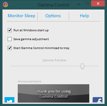 The main interface of Gamma Control 4